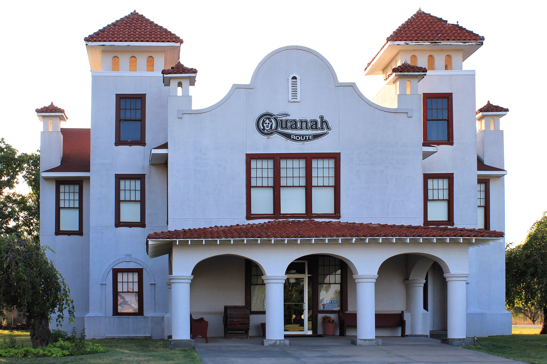 The Quanah, Acme and Pacific Railway Depot in Quanah, Texas, United States. The depot was built in 1909 and listed on the National Register of Historic Places on October 15, 1979.